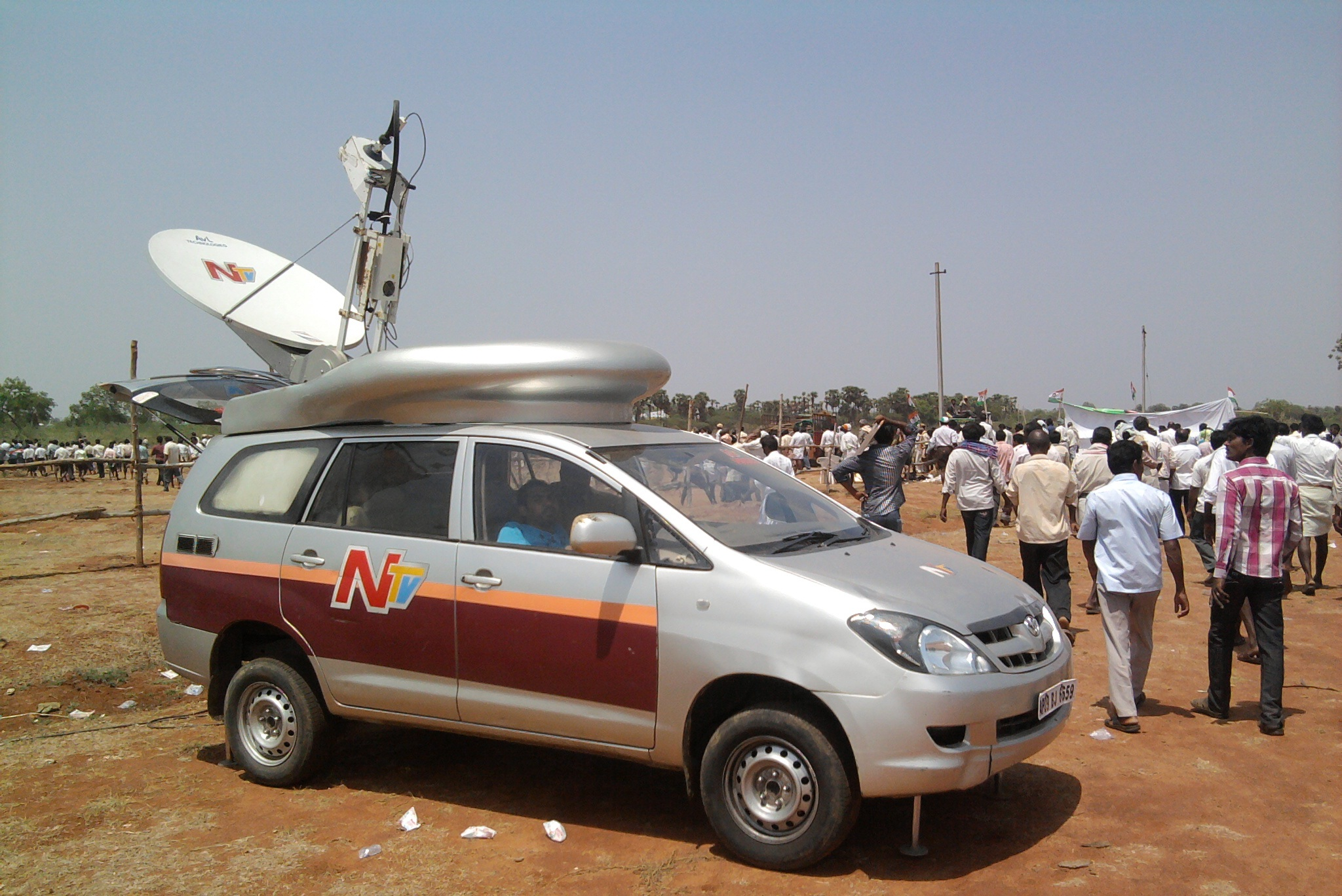 Ntv Outside broadcasting Vehicle at Vinjamoor, Nellore (dt), A.P.